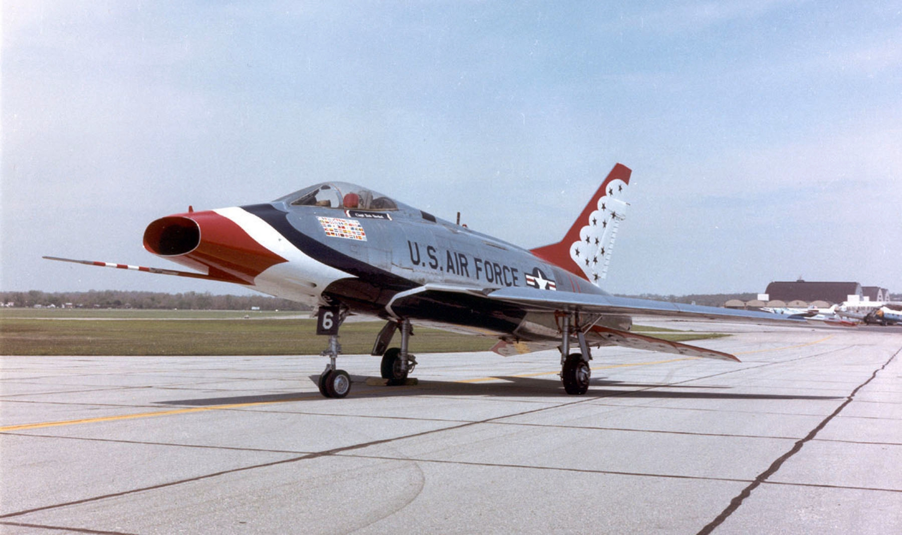 A North American F-100D Super Sabre from the U.S. Air Force Thunderbirds aerobatic team at the National Museum of the United States Air Force at Dayton, Ohio (USA).